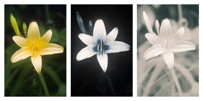 Comparison of a Yellow Day lily (Hemerocallis lilioasphodelus) flower in visible light (left), ultraviolet light (centre), and infrared light (right). In ultraviolet light the flower's throat has clear dark markings, acting as a " Nectar guide to bees and other insects that can see UV light. The anthers also appear darker in UV. In infrared light the anthers appear brighter than they do in visible light. The foliage behind the flower appears brighter as well.